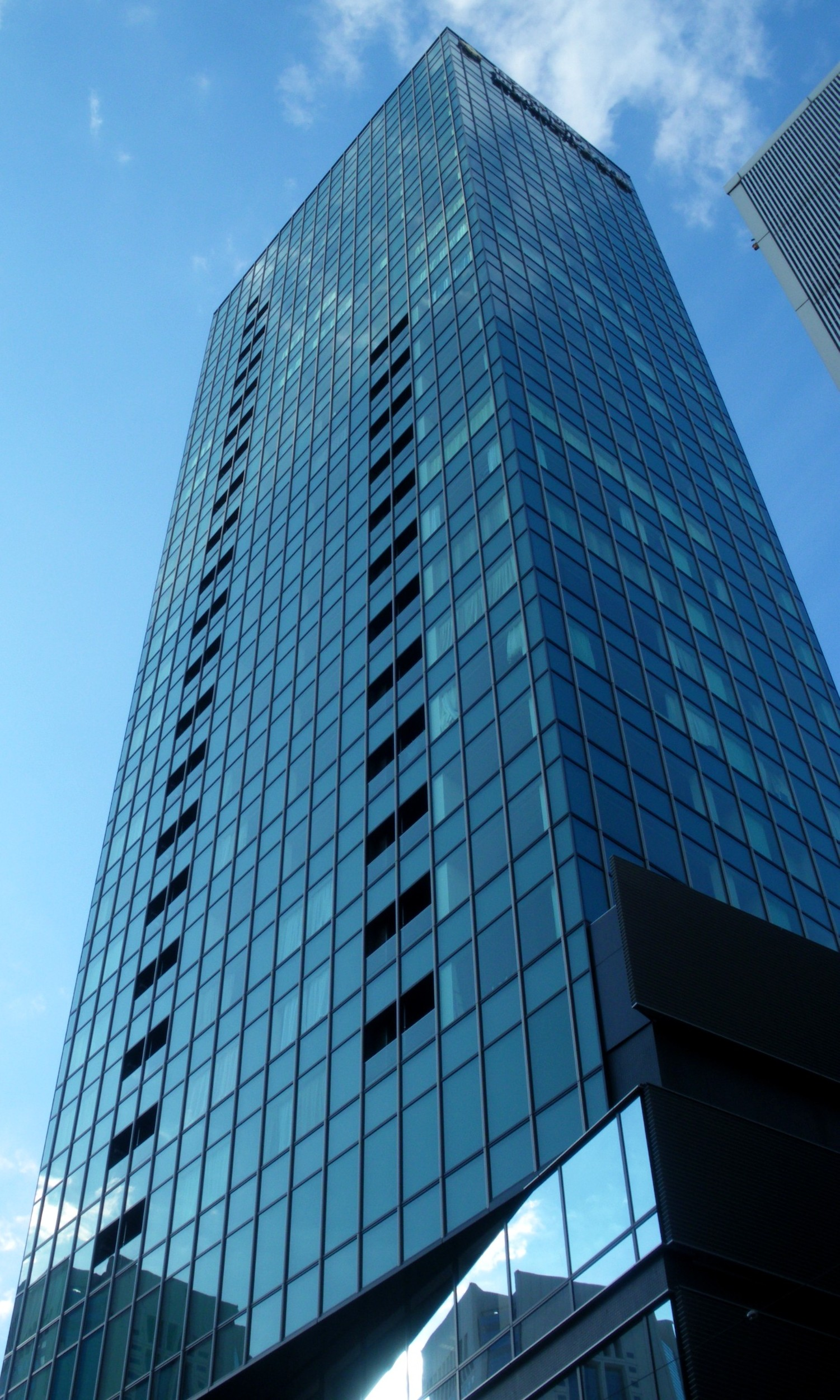 photo of Sumitomo fudosan nishishinjuku building No.5(platine shinjukshintoshin),one of the skyscrapers in Shinjuku,Tokyo,Japan.